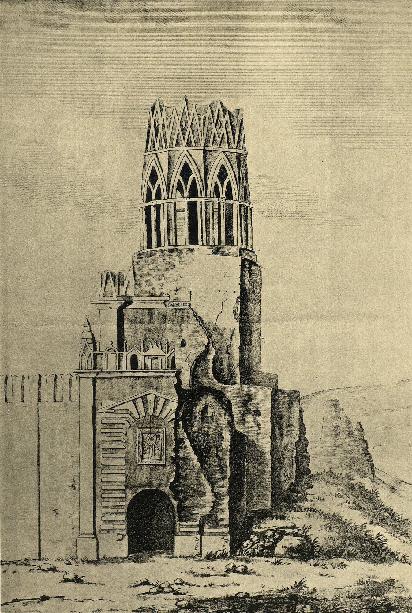 Damage of Moscow Kremlin in 1812. Nikolskaya tower